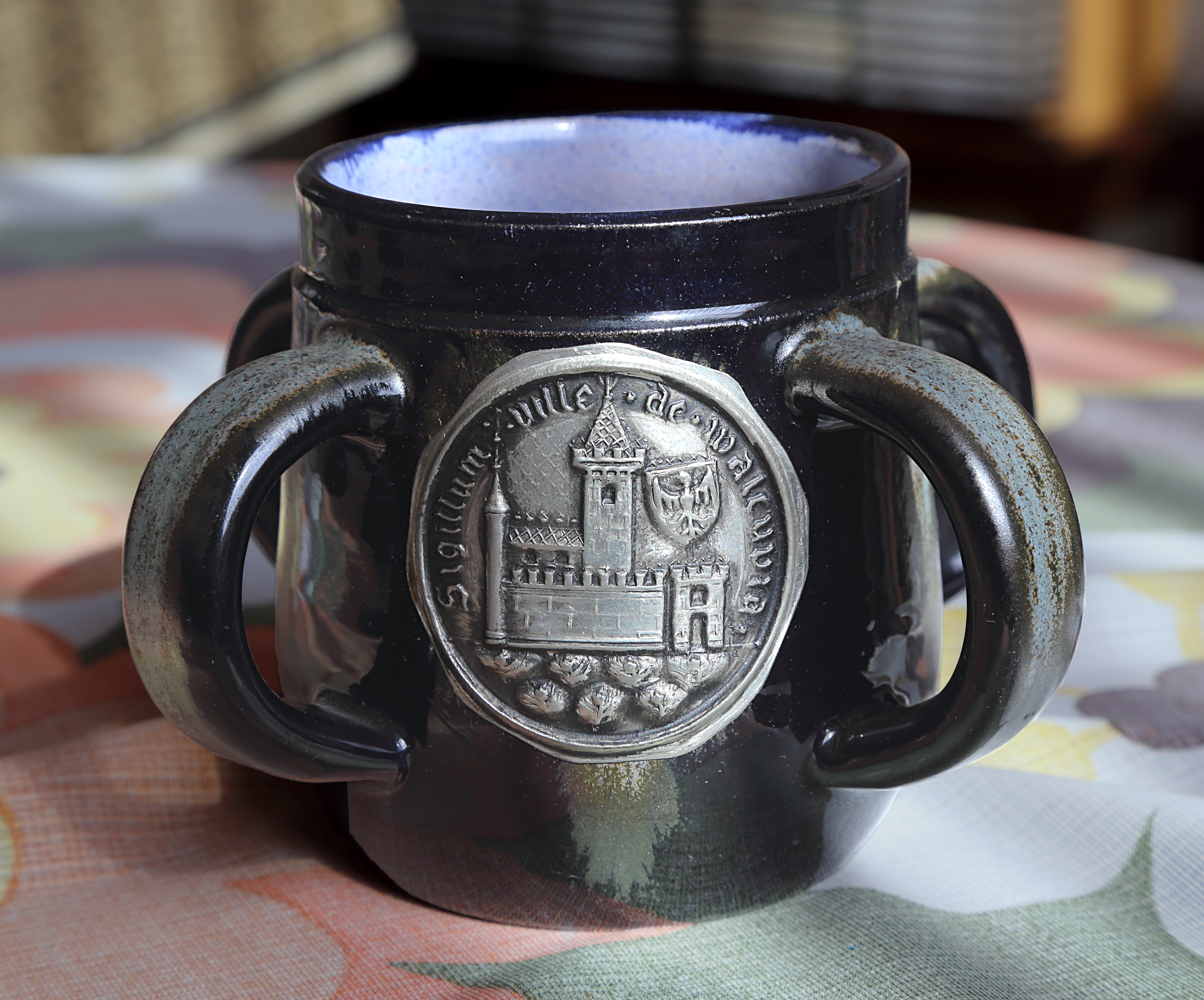 The pot of Charles V with the representation of the seal of the city of Walcourt (Belgium). Picture taken in Belgium.